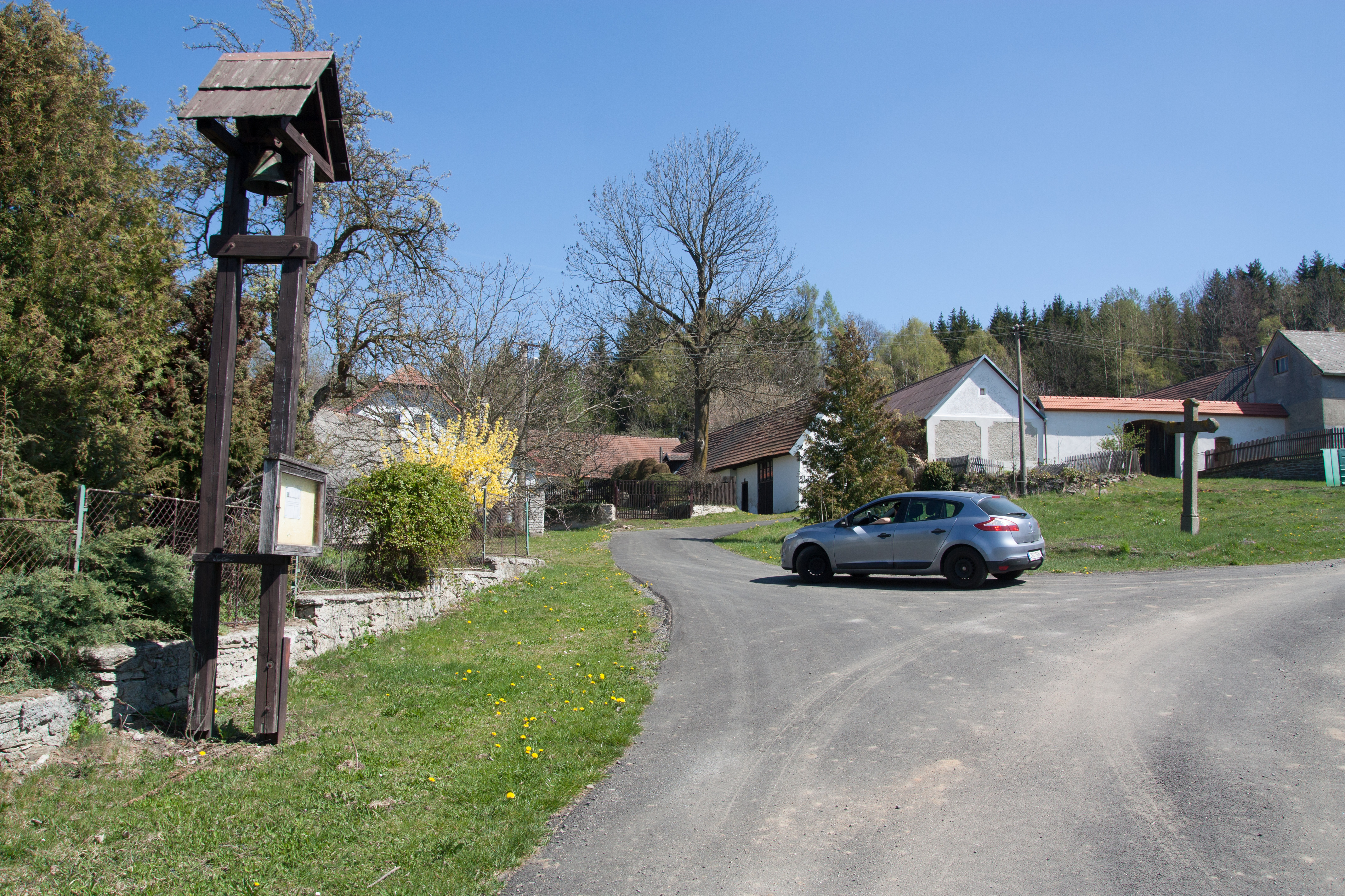 Village square in municipality Nahořany, Tábor District, South Bohemian Region, Czechia